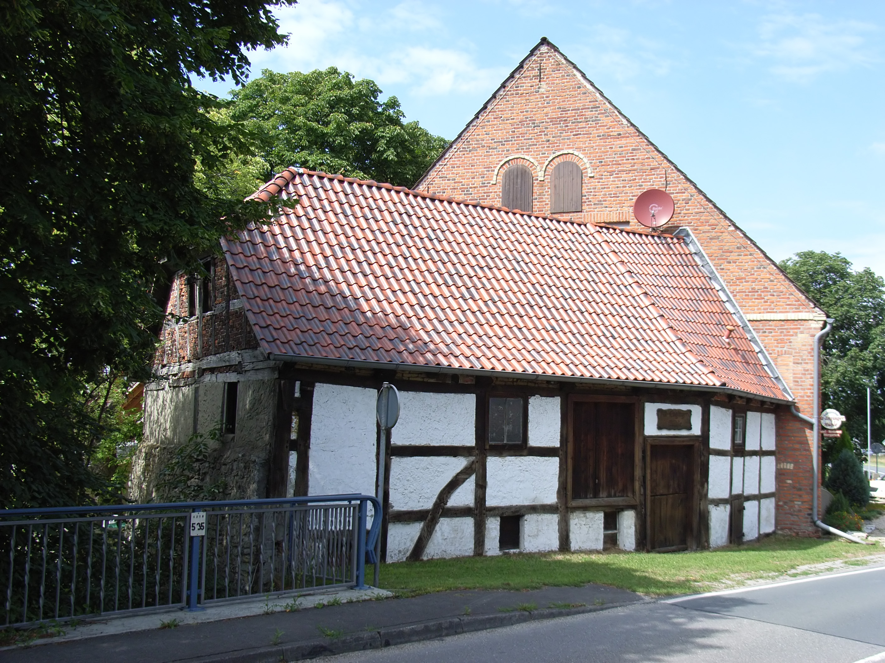 Elsen, Paderborn, Deutschland: Altenginger Mühle (documentary mentioned 1058 for the first time), one of the oldest mills in the region around Paderborn. Paderborn)